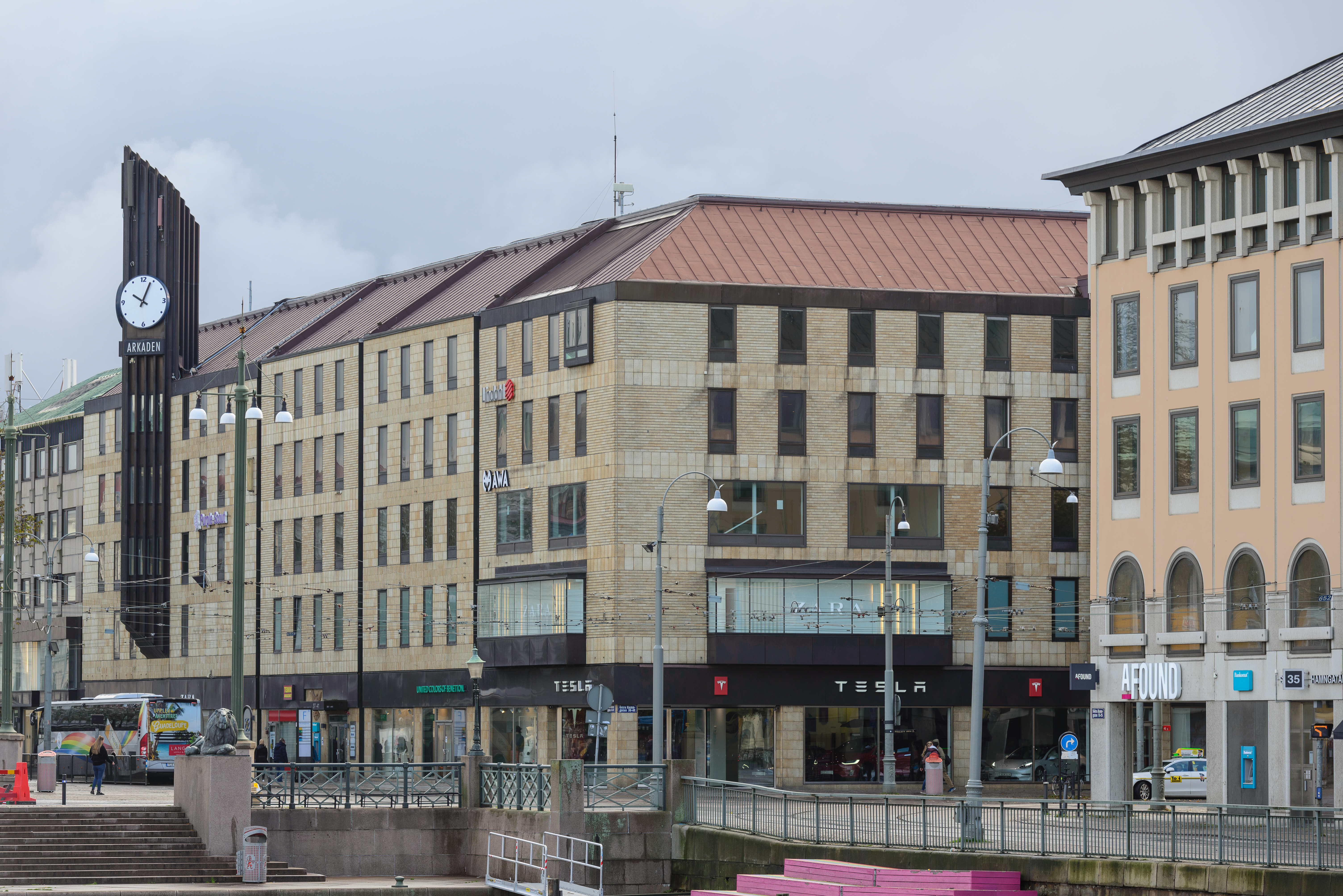 Arkaden is a commercial building in Gothenburg, Sweden.